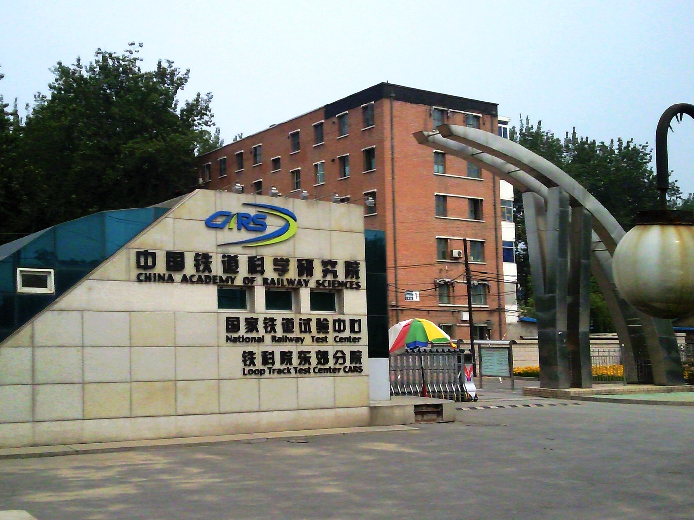 China Academy of Railway Sciences, National Railway Test Center.